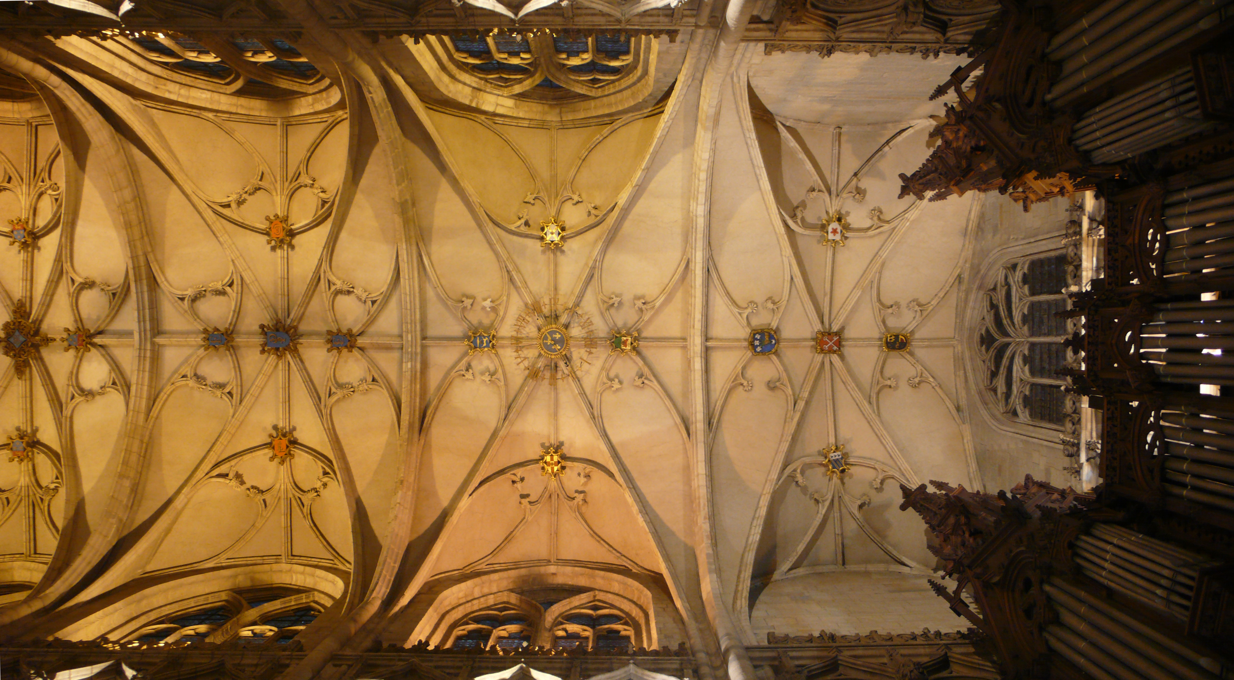 The Ceiling (Rib vault) of the curch of Saint Nizier. Address: 46 Rue Président Edouard Herriot, Lyon (F-69002)